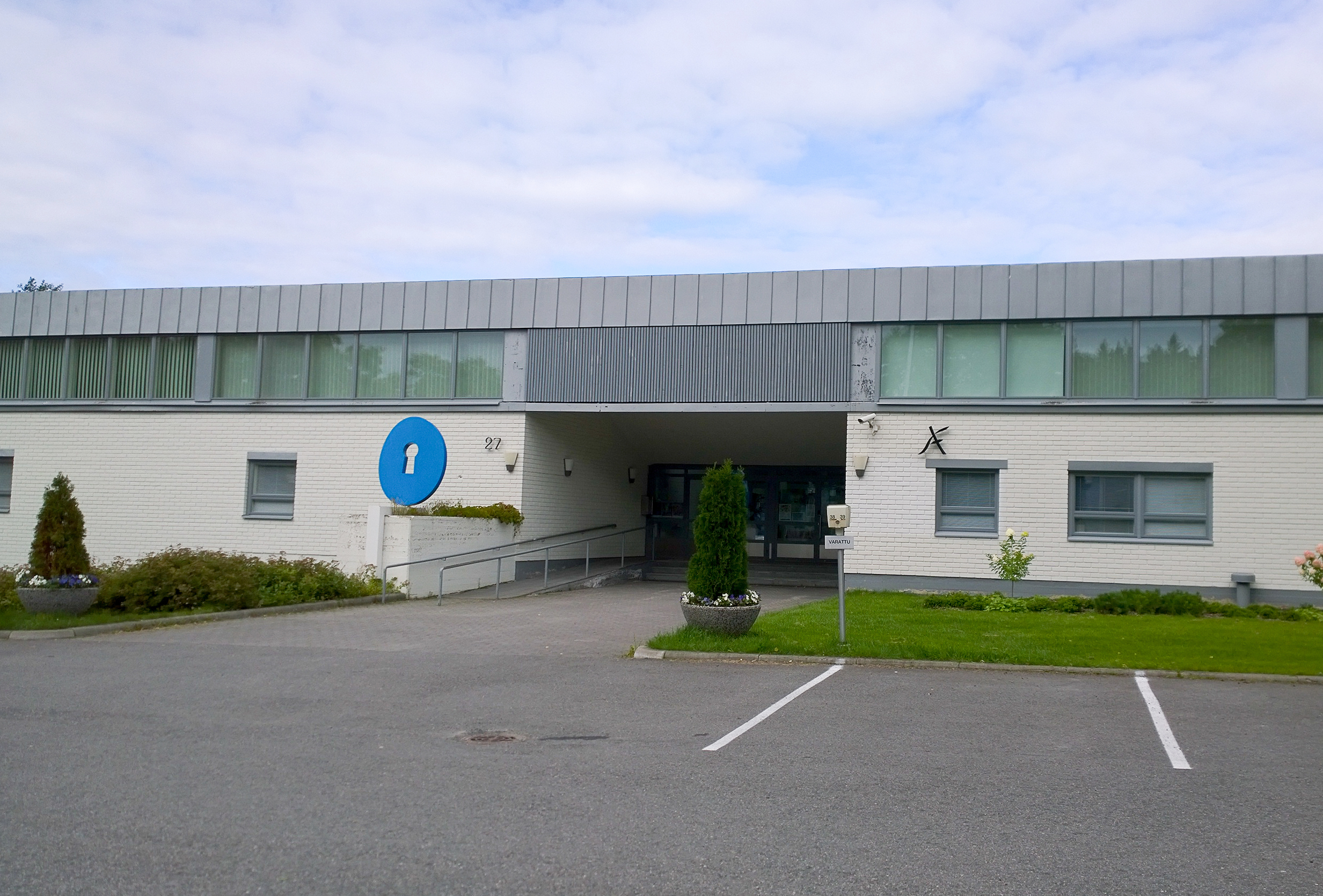 Forssa Vocational Institute (FAI). A-building 2017